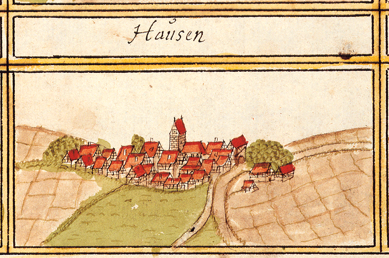 View of Hausen an der Zaber, Brackenheim, from the forest register books created by Andreas Kieser